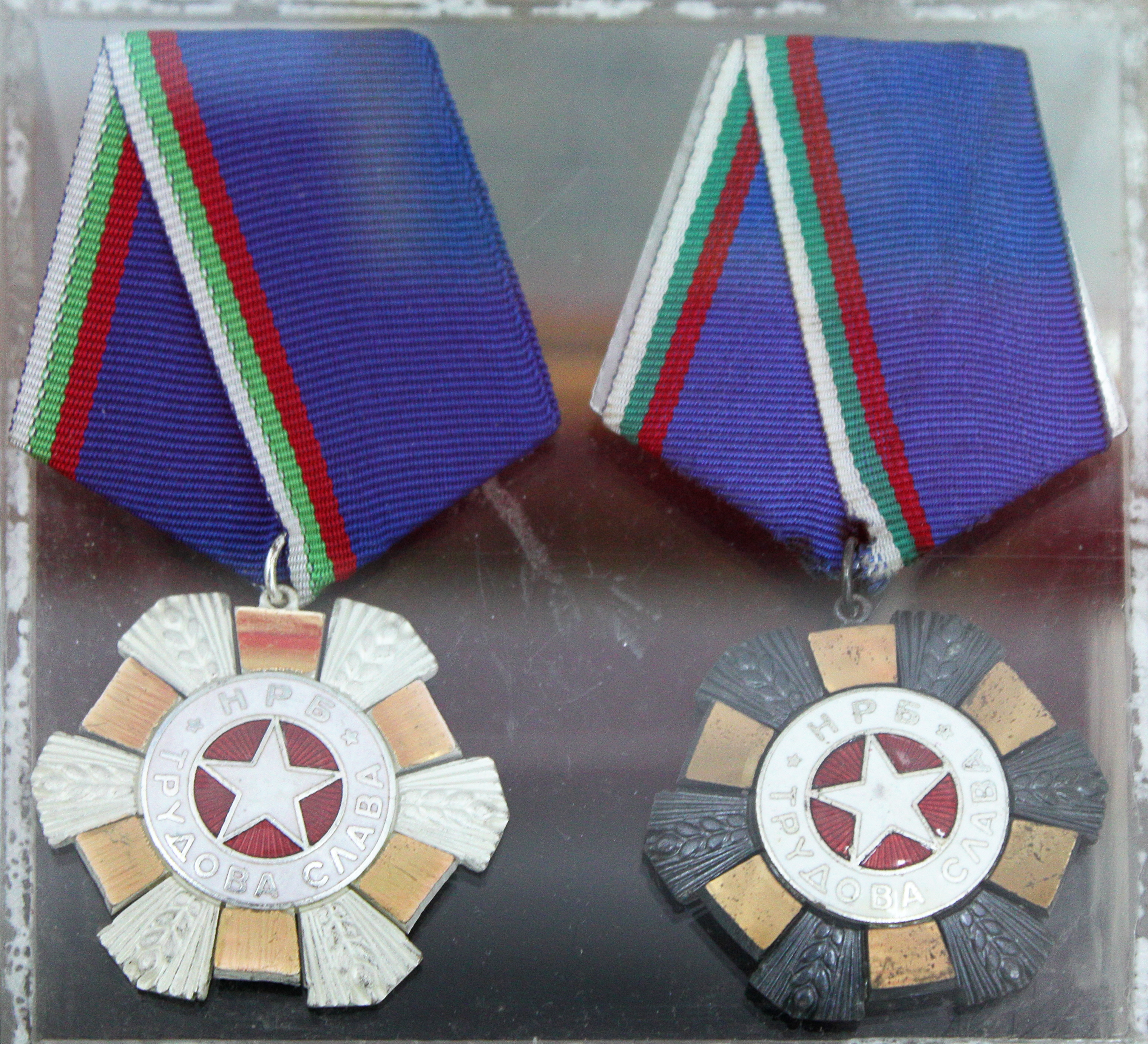 Historic Museum Ivailovgrad, Bulgaria